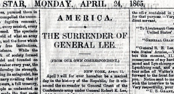 Morning Star April 24, 1865 Surrender Of General Lee. News just missed by Samuel Lucas